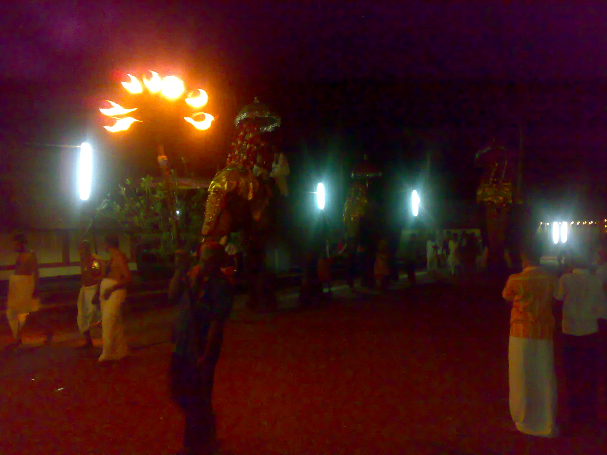 Vazhappally Temple Sribali Ezhunnallathu